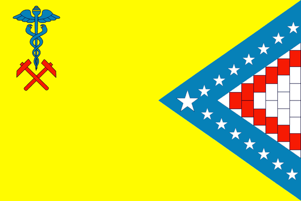 Flag of Gulkevichi rayon, Krasnodar Territory, Russia